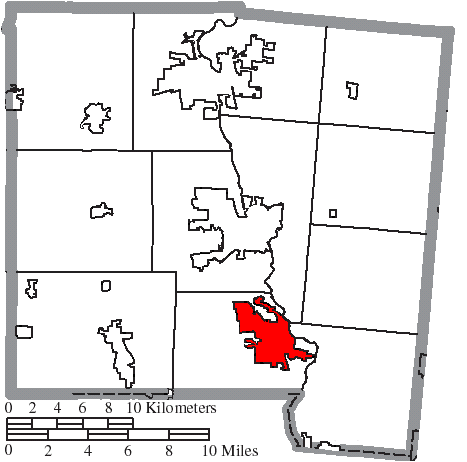 Map of the municipal and township boundaries of Miami County, Ohio, United States, as of the 2000 census, with the location of the city of Tipp City highlighted. Township borders are shown only in unincorporated areas in order to differentiate incorporated and unincorporated areas more clearly.